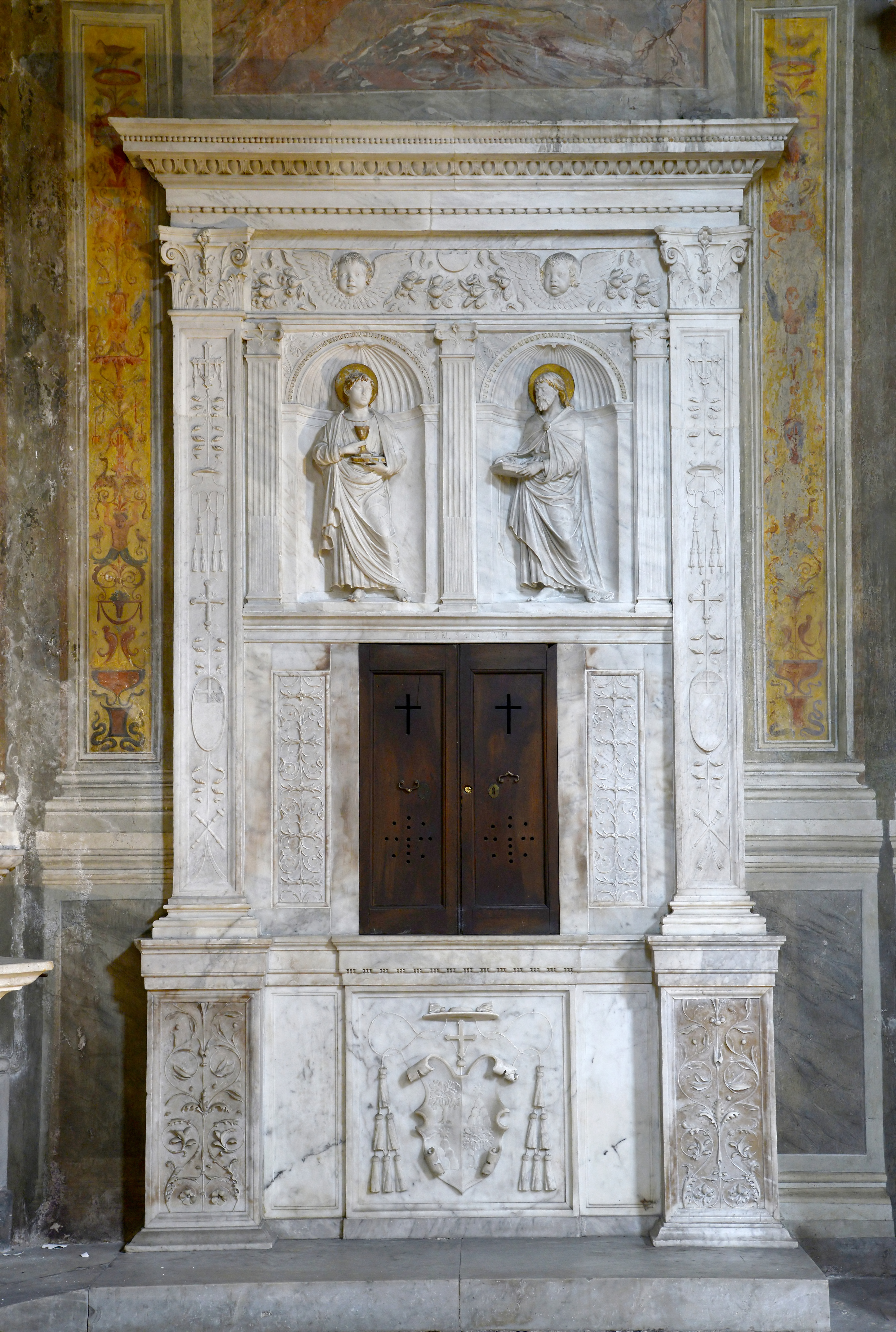 Church of Santa Maria del Popolo, Roma. Capella Montemirabili.